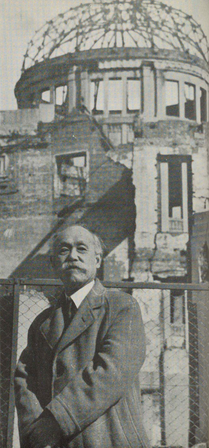 Portrait of Ishiguro Tadaatsu (石黒忠篤, 1884 – 1960)